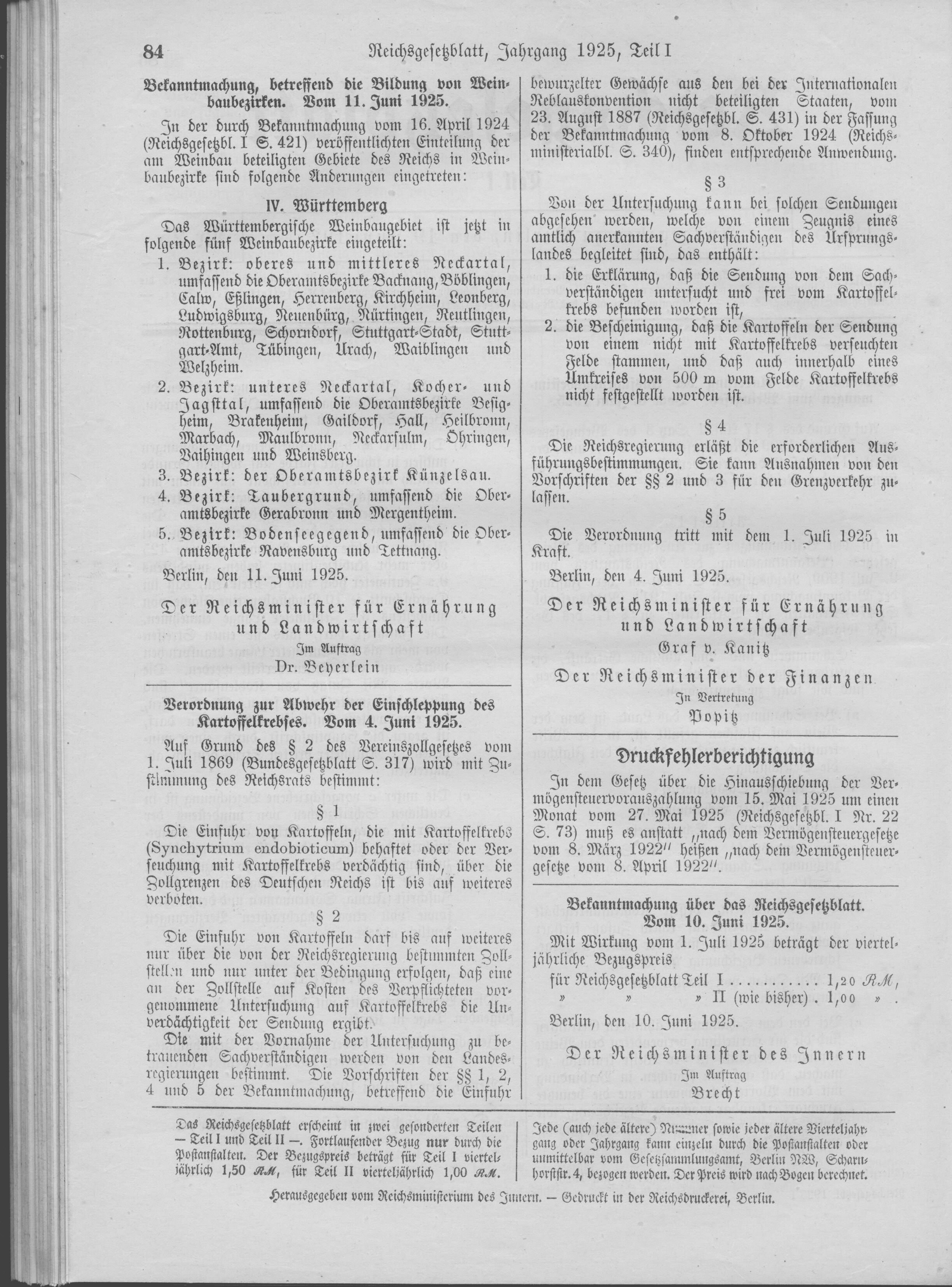 Scan from the Imperial Law Gazette of Germany, 1925, part 1